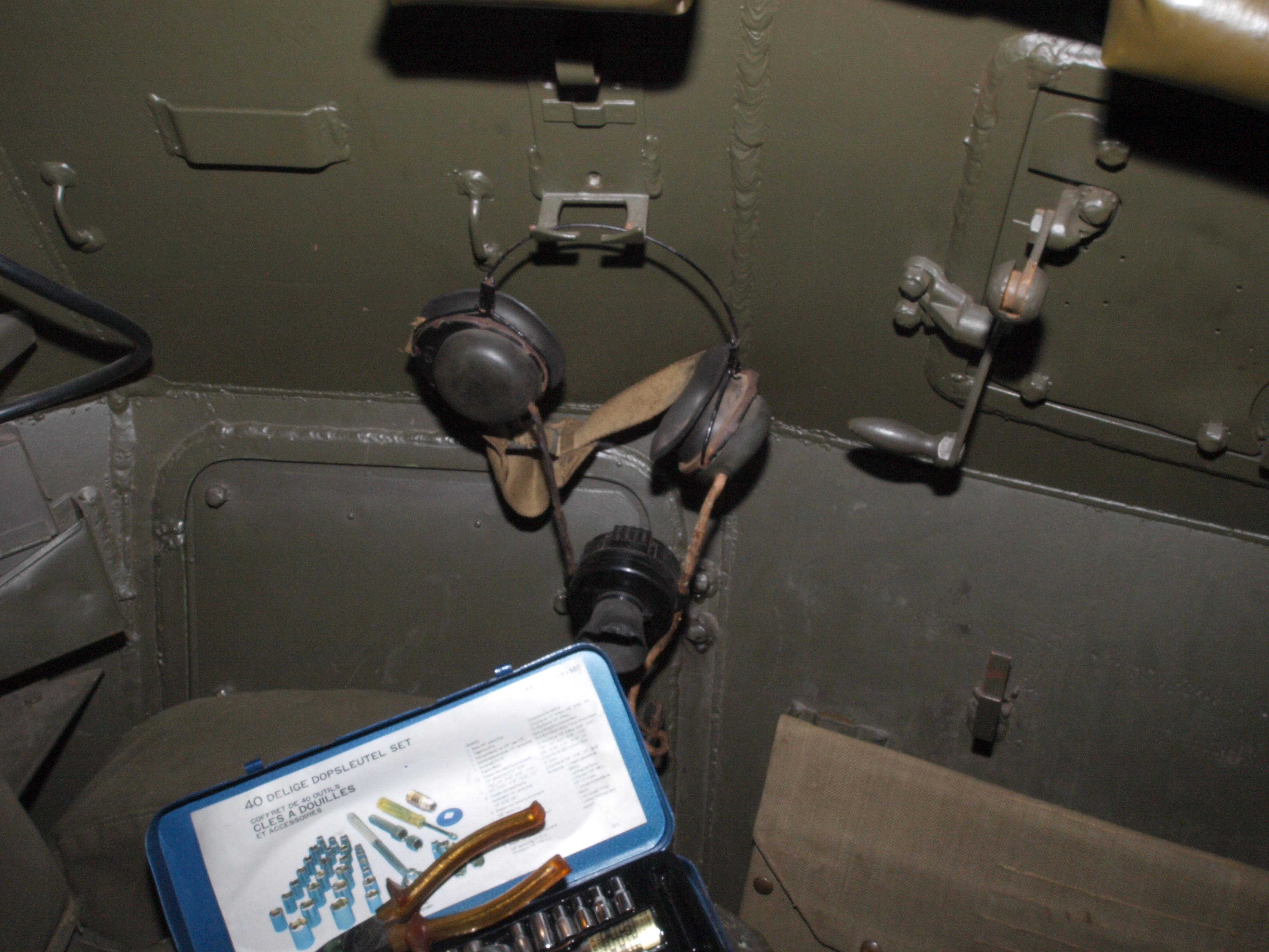 Ford Lynx of the Dutch army. Original head-set.